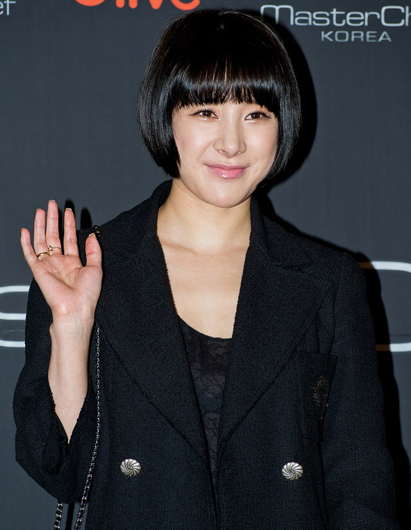 Seo In-young at the press conference of O'live's MasterChef Korea in April 2012